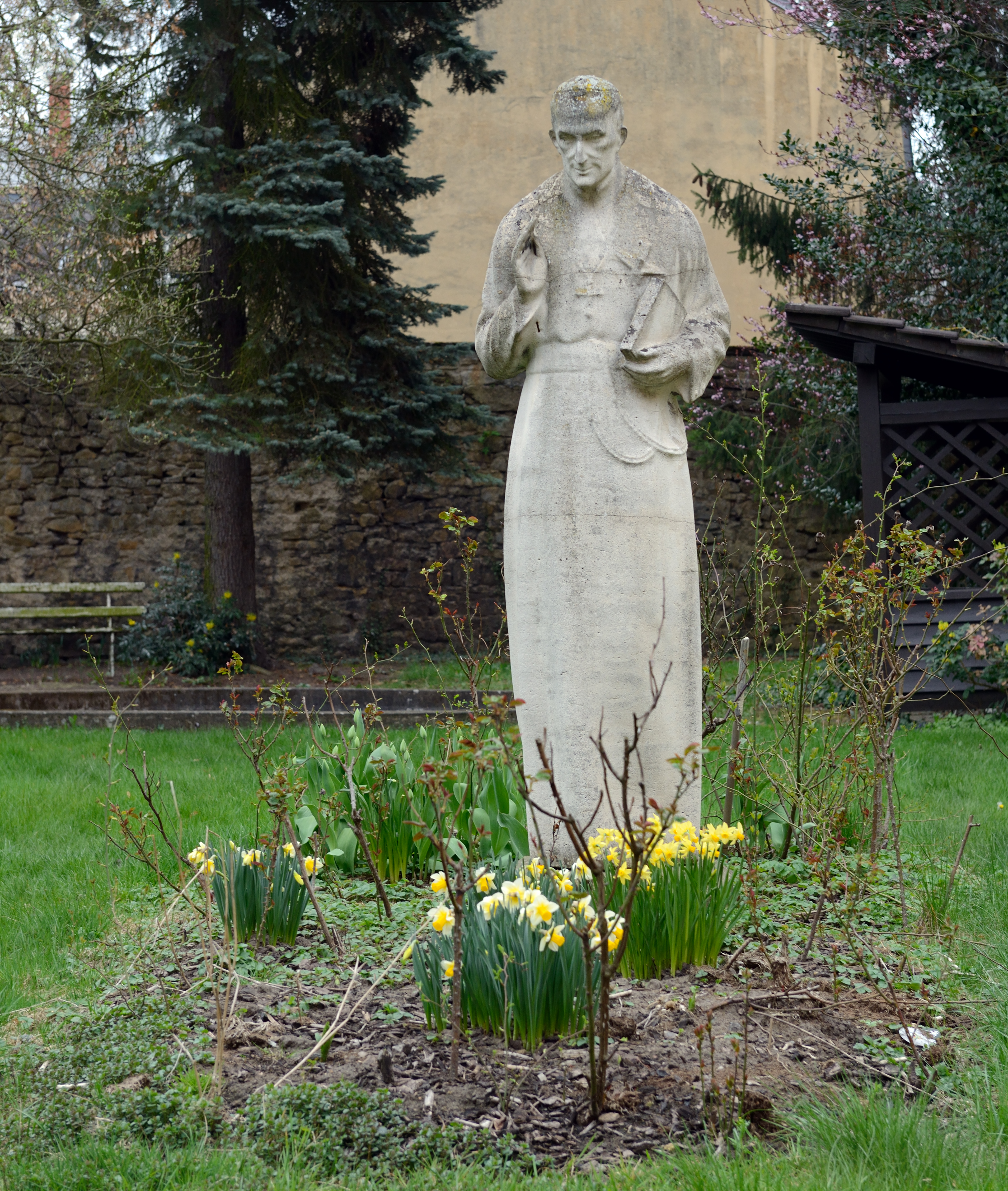 Statue of St Alphonse de Liguori (1696-1787) in the garden of the Saint-Alphonse church in Luxembourg City.